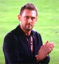 Tony Popovic managing the Western Sydney Wanderers on 24 April 2016.